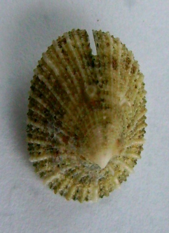 Emarginula striatula (top view) dredged north of Pakiri, New Zealand. Head region with the fissure is on the top of the image.